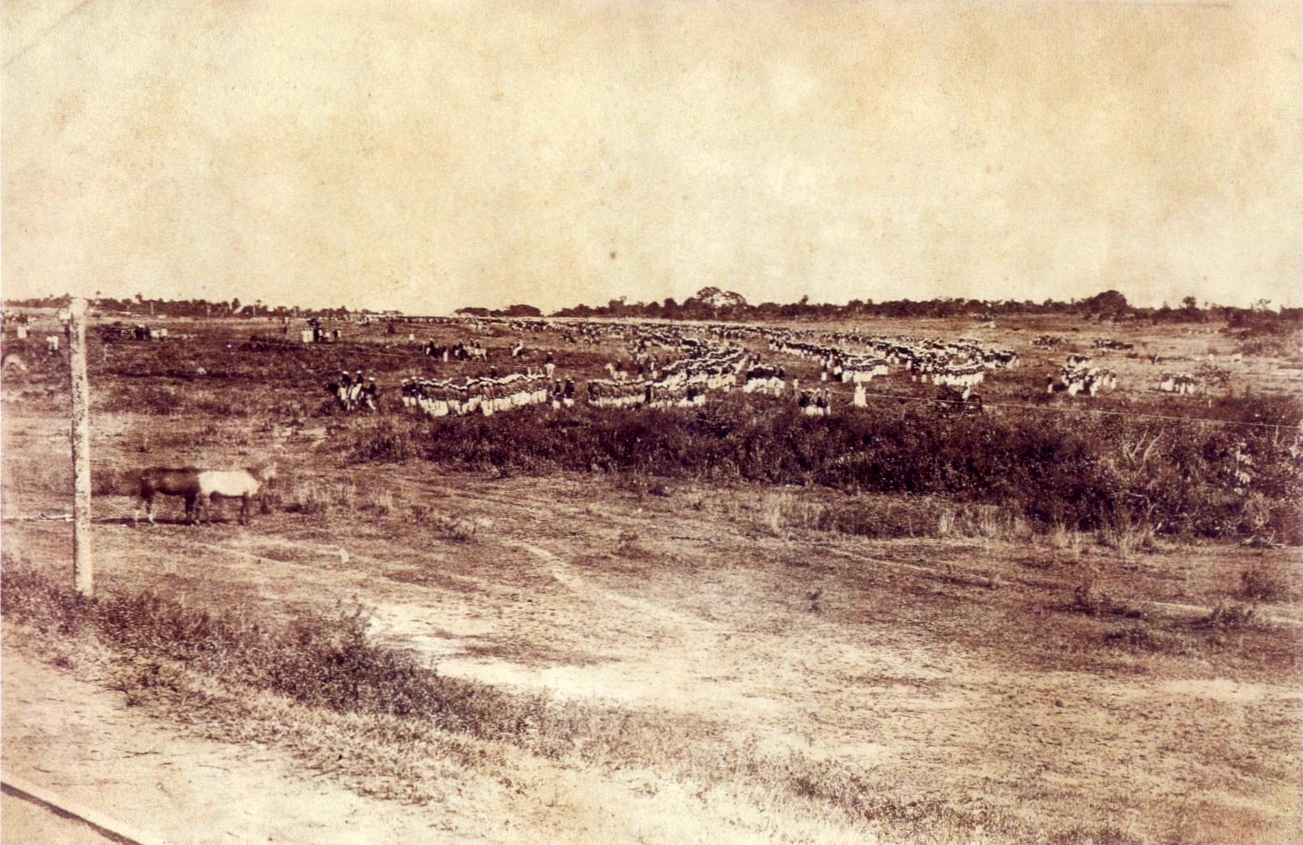 The Brazilian army in Paraguay during the Count of Eu's review